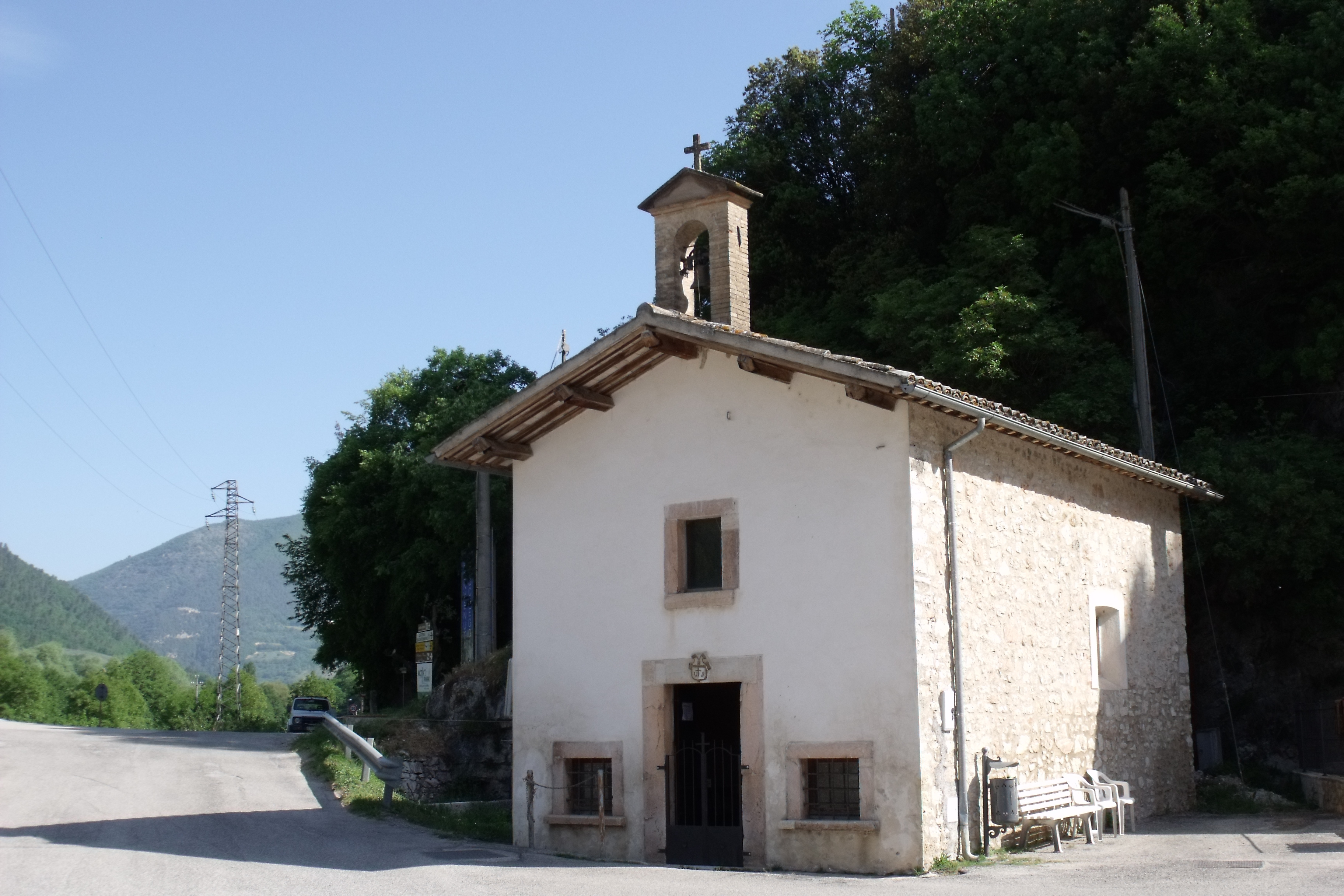 Church of San Rocco in Scheggino, Valnerina, Province of Perugia, Umbria, Italy